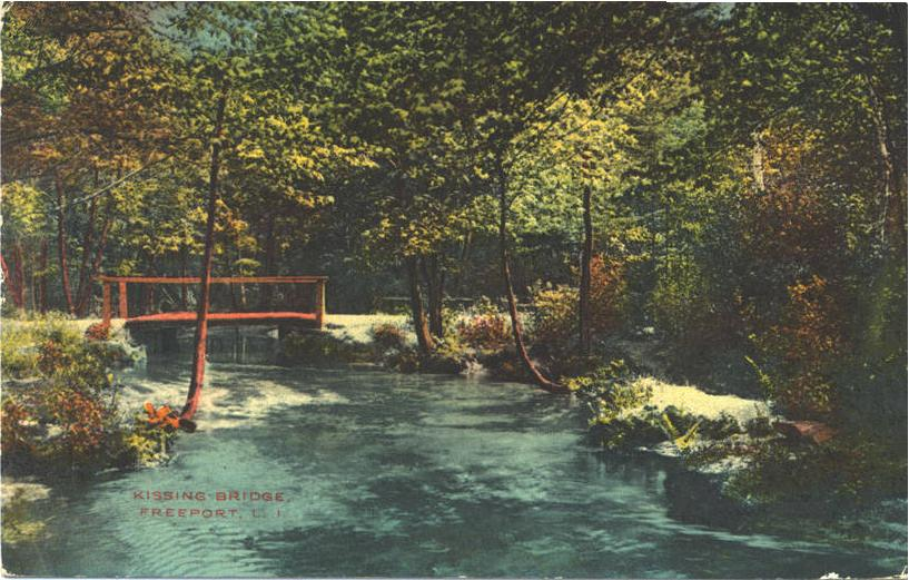 Postcard of the "Kissing Bridge" on Seaman Avenue, crossing Milburn Creek at the Freeport-Baldwin border (Long Island, New York), c. 1913